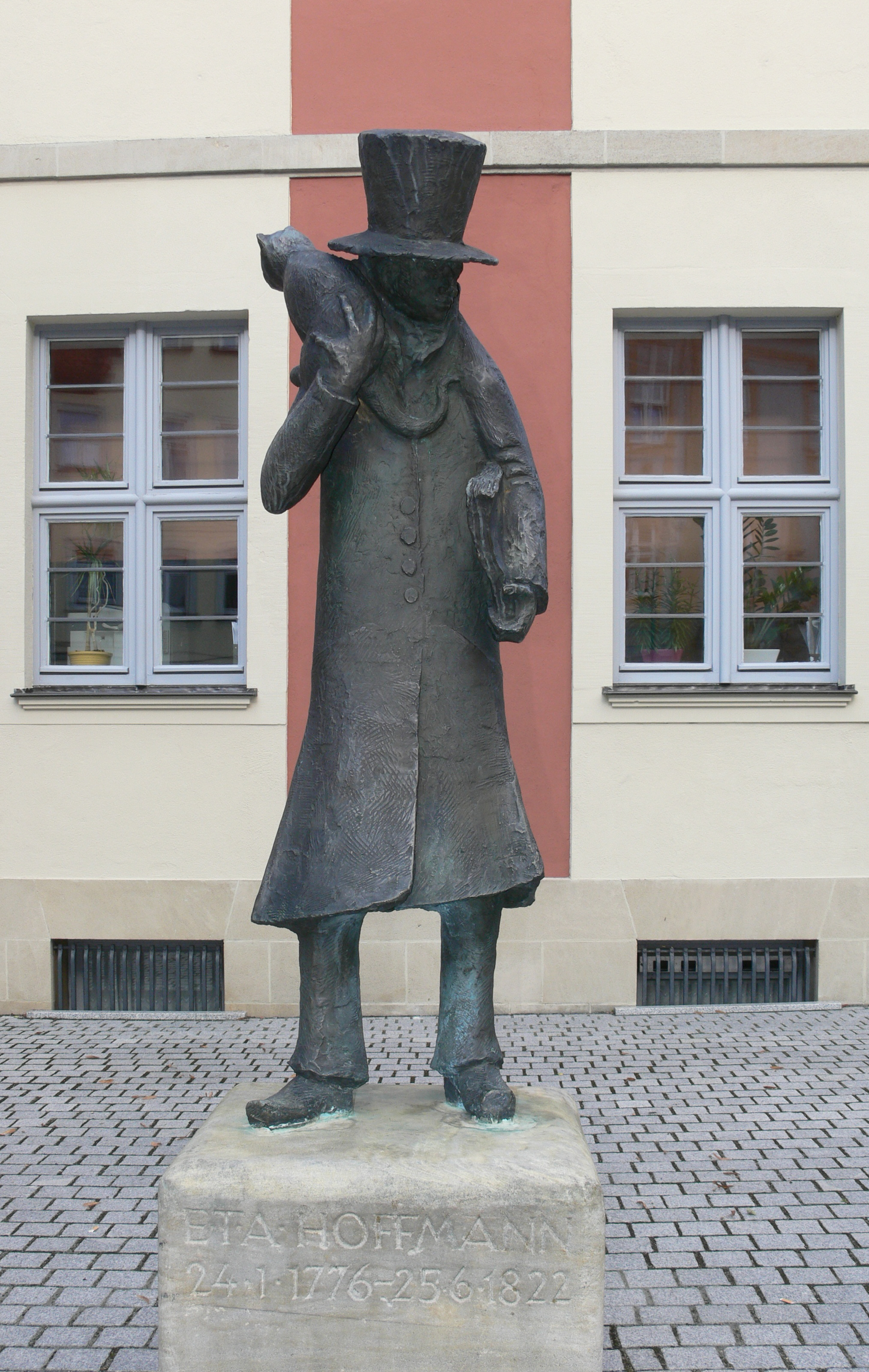 E.T.A.-Hoffmann-Theater Bamberg Statue E. T. A. Hoffmann